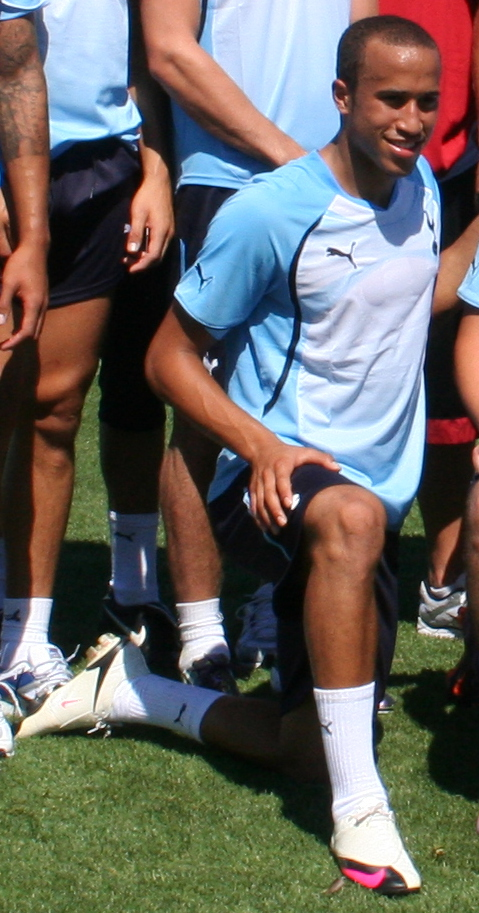 Andros Townsend, cropped from Players of Tottenham Hostpur posing with San Francisco 49ers' Alex Smith and Joe Staley